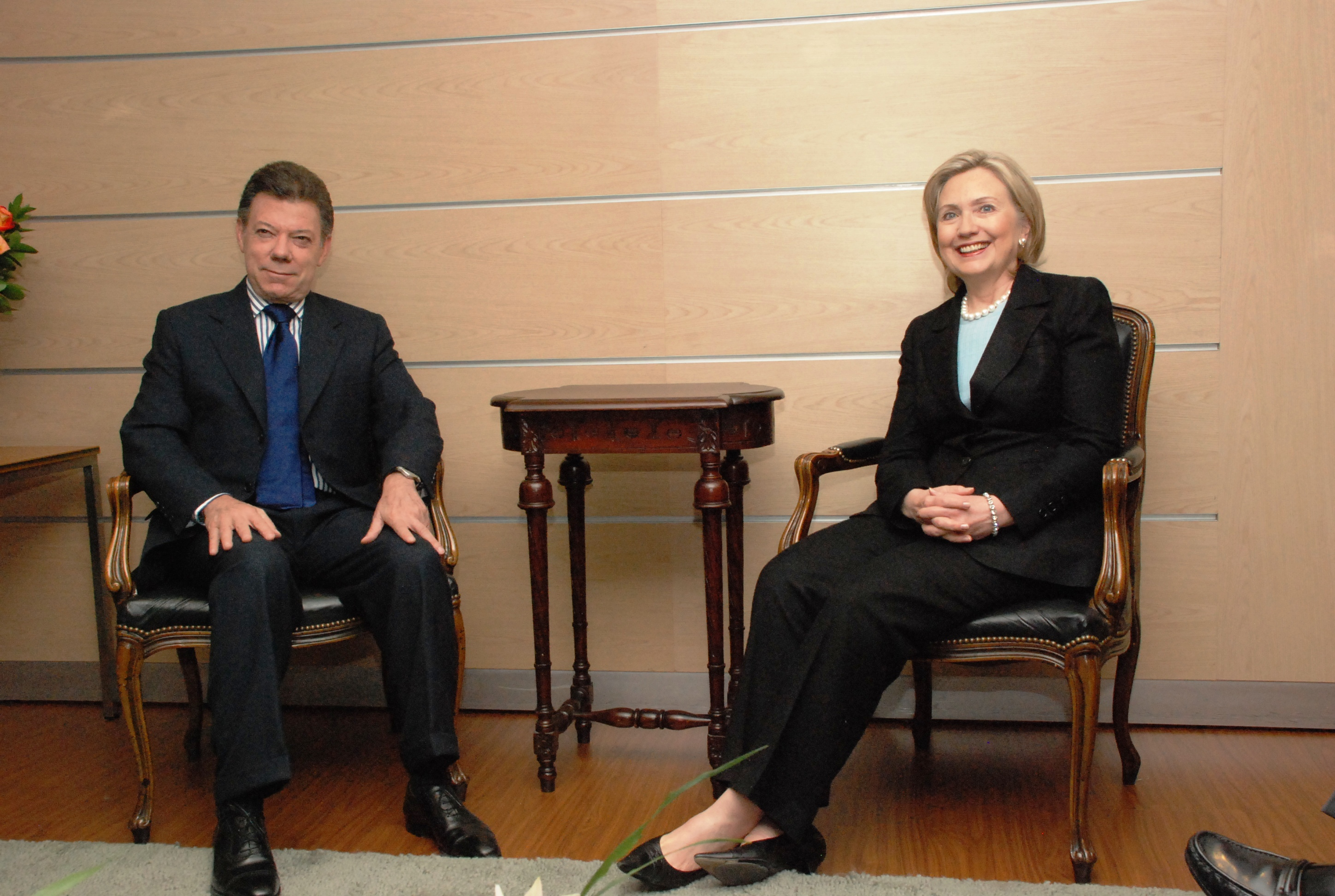 U.S. Secretary of State Hillary Rodham Clinton meets with Colombian Presidential Candidate Juan Manuel Santos to discuss issues of bilateral interest at the Hotel Charleston in Bogotá, Colombia, on June 9, 2010. [State Department photo/ Public Domain]